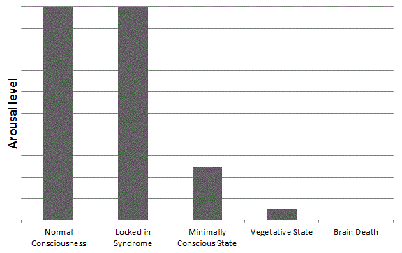 Using data as interpreted from Laureys S, Owen AM, Schiff ND (2004). "Brain function in coma, vegetative state, and related disorders". The Lancet Neurology 3 (9): 537–546.